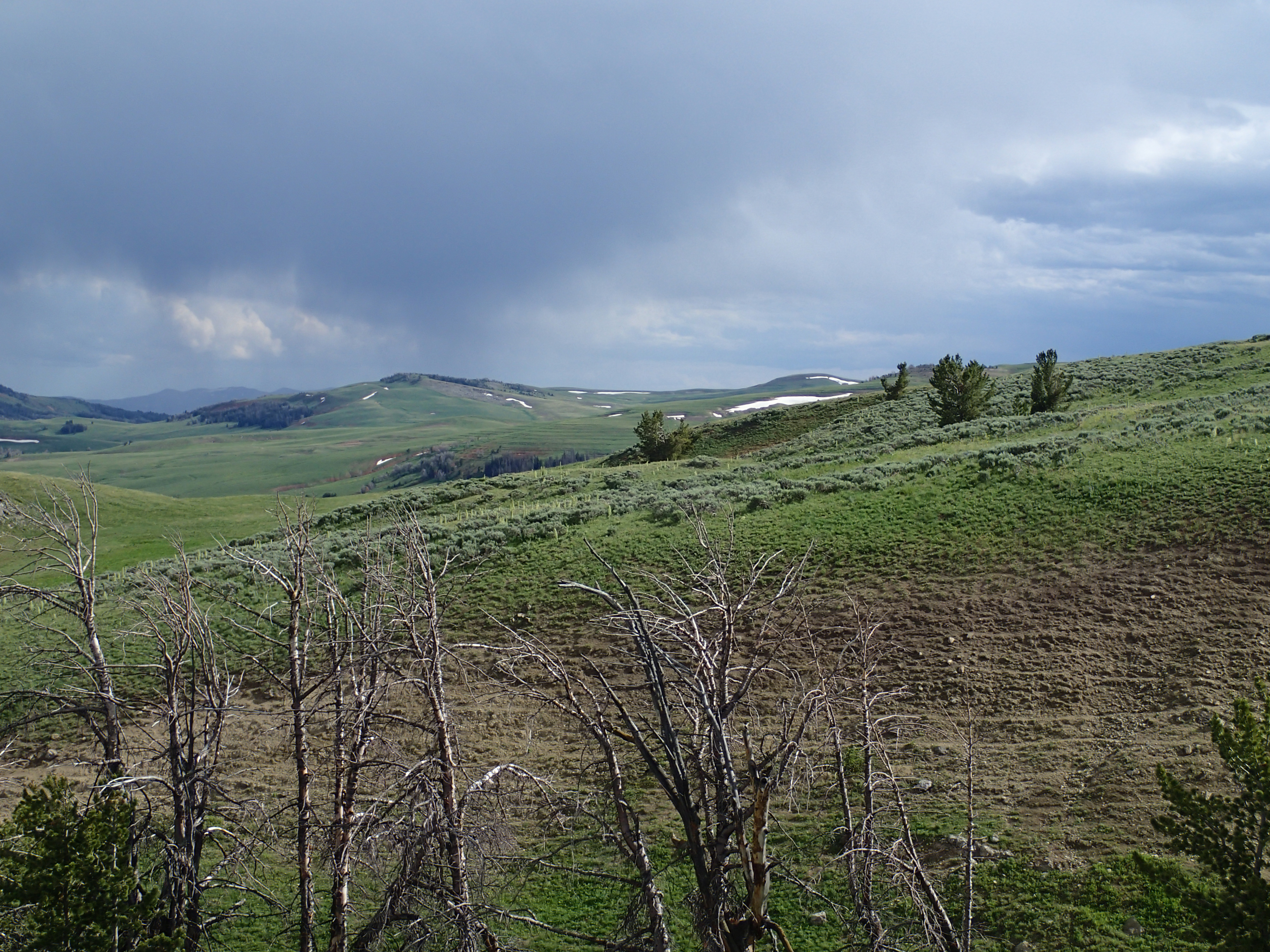 Gravelly Range Montana Landscapes July 2013